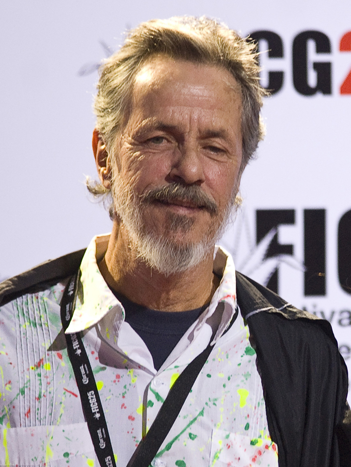 Mexican director Gabriel Retes on the red carpet at the closing ceremony of the Guadalajara International Film Festival